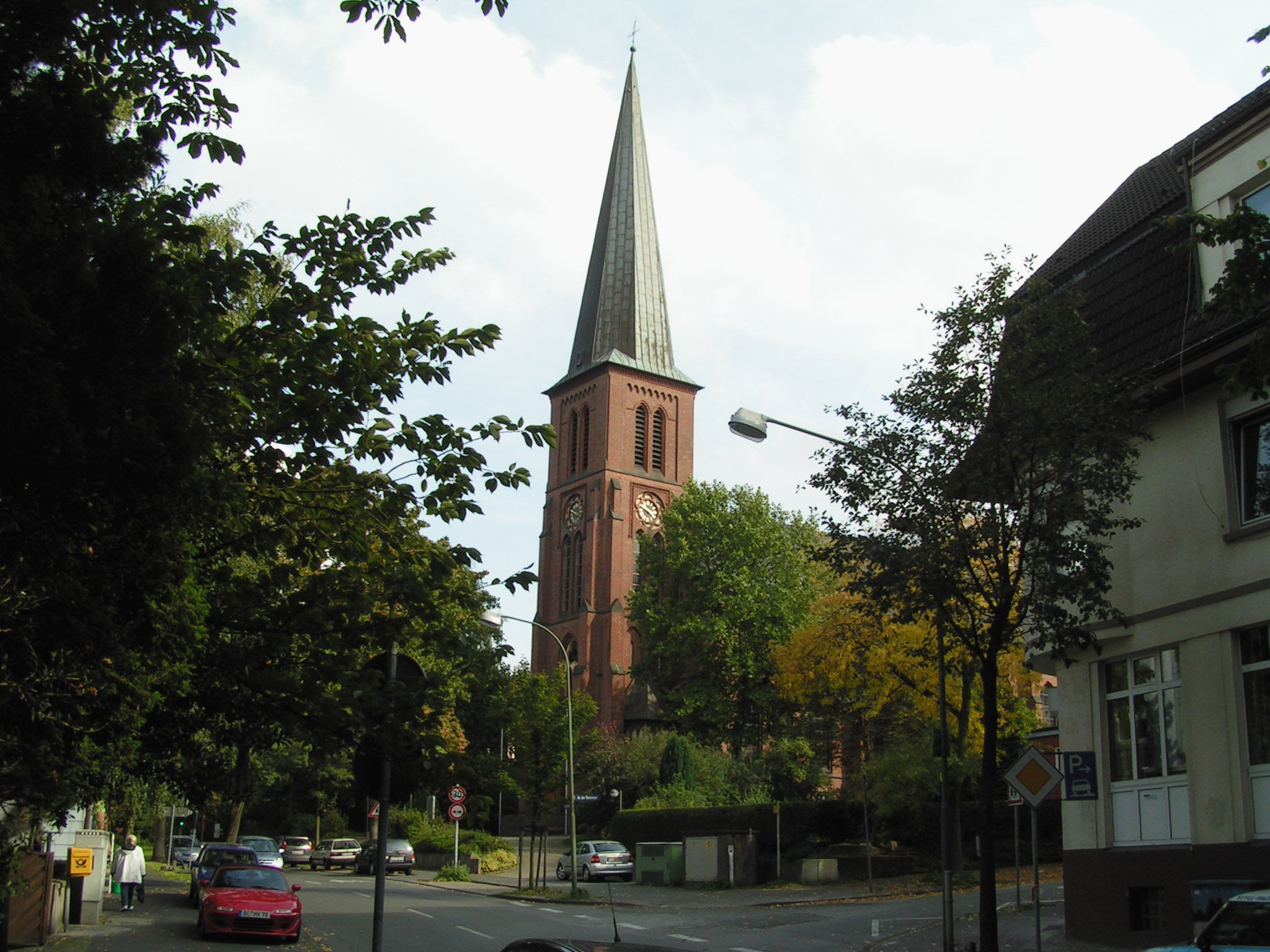 Ansicht der St. Liborius-Kirche in Grumme, Bochum Source: own work Date: Sept 2007, Bochum, North Rhine-Westphalia, Germany Author: Maschinenjunge Licence: GFDL, cc-by 3.0